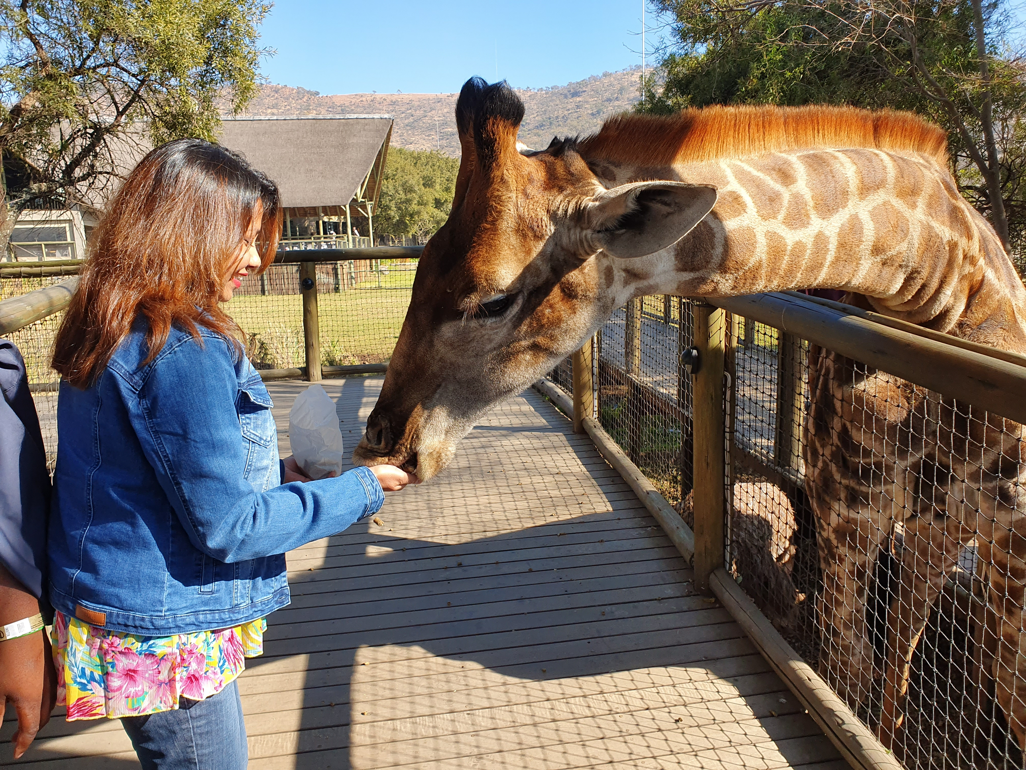 Have Experience of Touching & Feeding Animals at Lion's Park, SA This is an image with the theme "Africa on the Move or Transport" from: South Africa